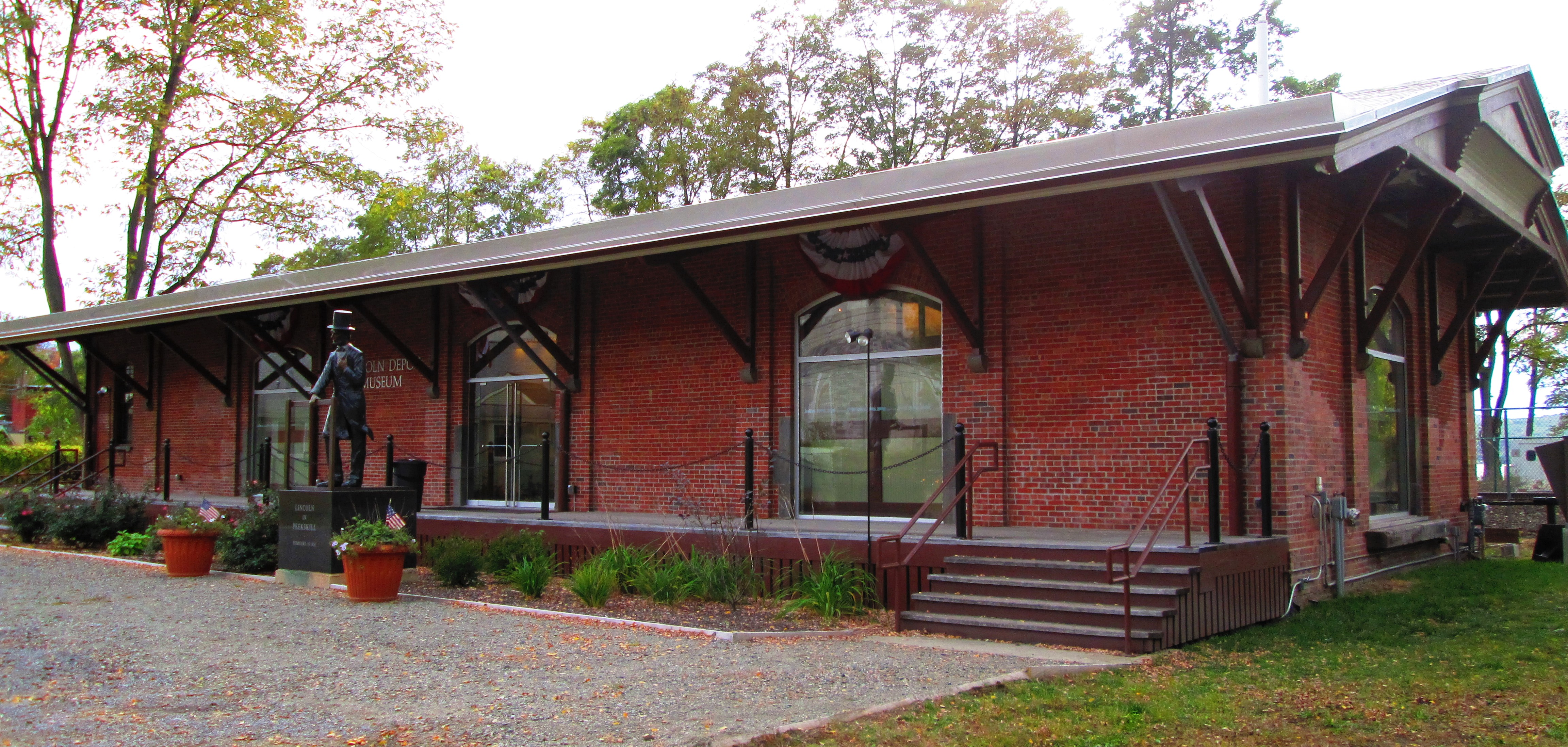 The Lincoln Depot Museum at 41 Water Street in Peekskill, New York commemorates a speech made by Abraham Lincoln during his train trip to Washington D.C. after being elected President, the only speech he is known to have made in Westchester County. The museum opened on October 18, 2014, and is housed in the Peekskill Freight Depot, built c.1890 by the New York Central Railroad.